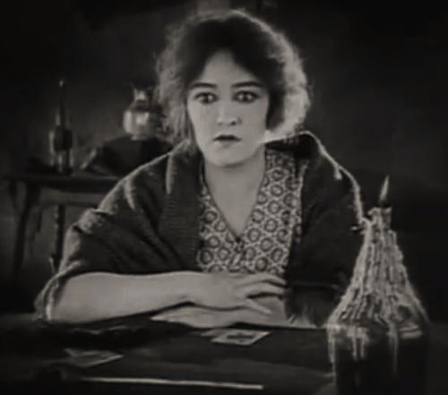 Gladys Brockwell in Oliver Twist (1922) - cropped screenshot